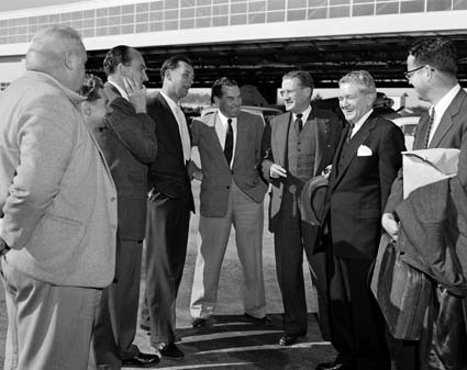 The new United States Ambassador to Australia, Mr William J Sebald, second from right, meeting the Press on his arrival by air at Canberra on June 4, 1957. On Mr Sebald's right is Mr Avery F Peterson, who was charge d'affaires pending the arrival of the new ambassador [photographic image] / photographer, W Pedersen. 1 photographic negative: b&w, acetate